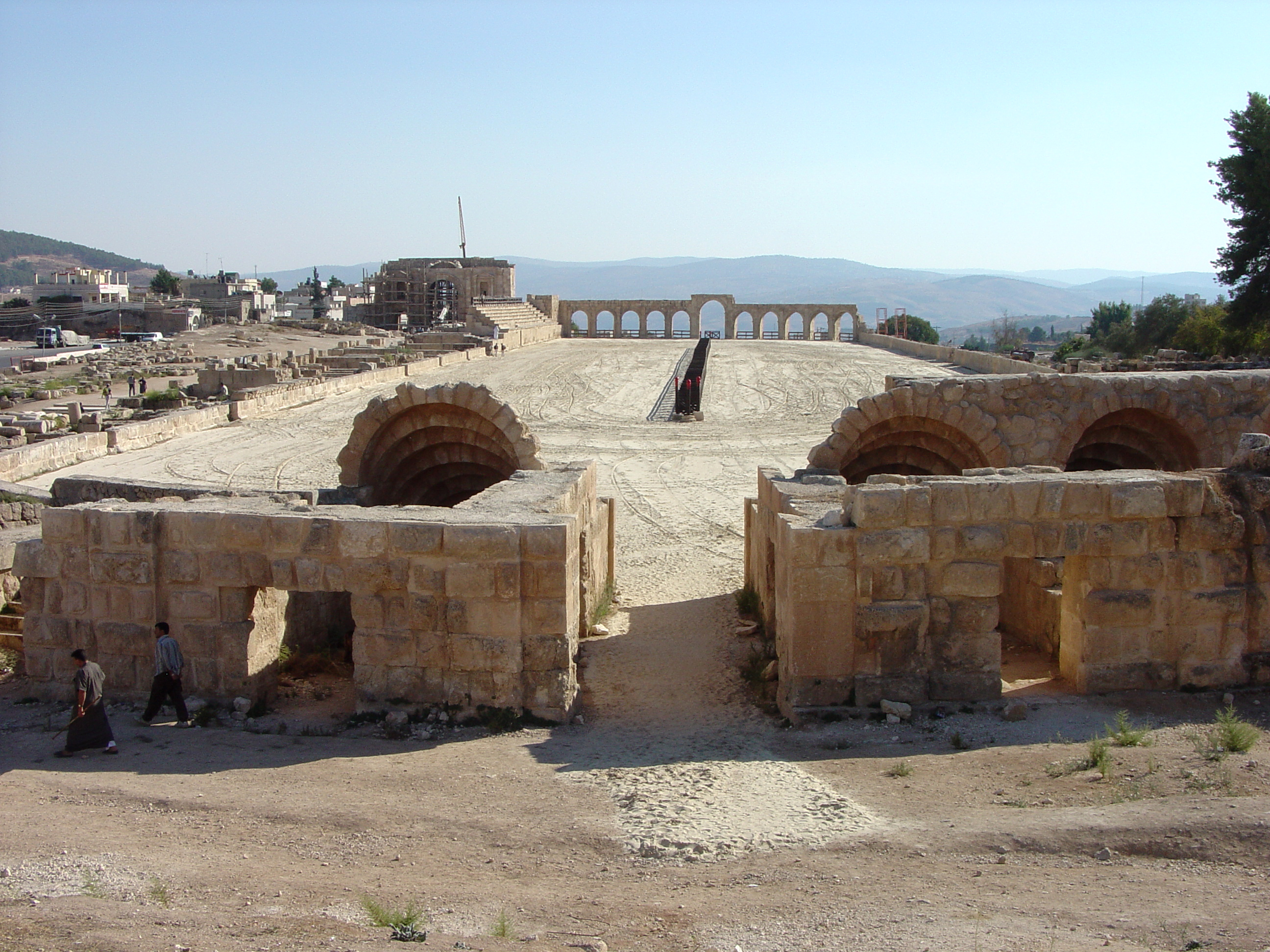 Hippodrome of Jerash in Jordan, constructed in the second century AD for chariot races. The view looks south.